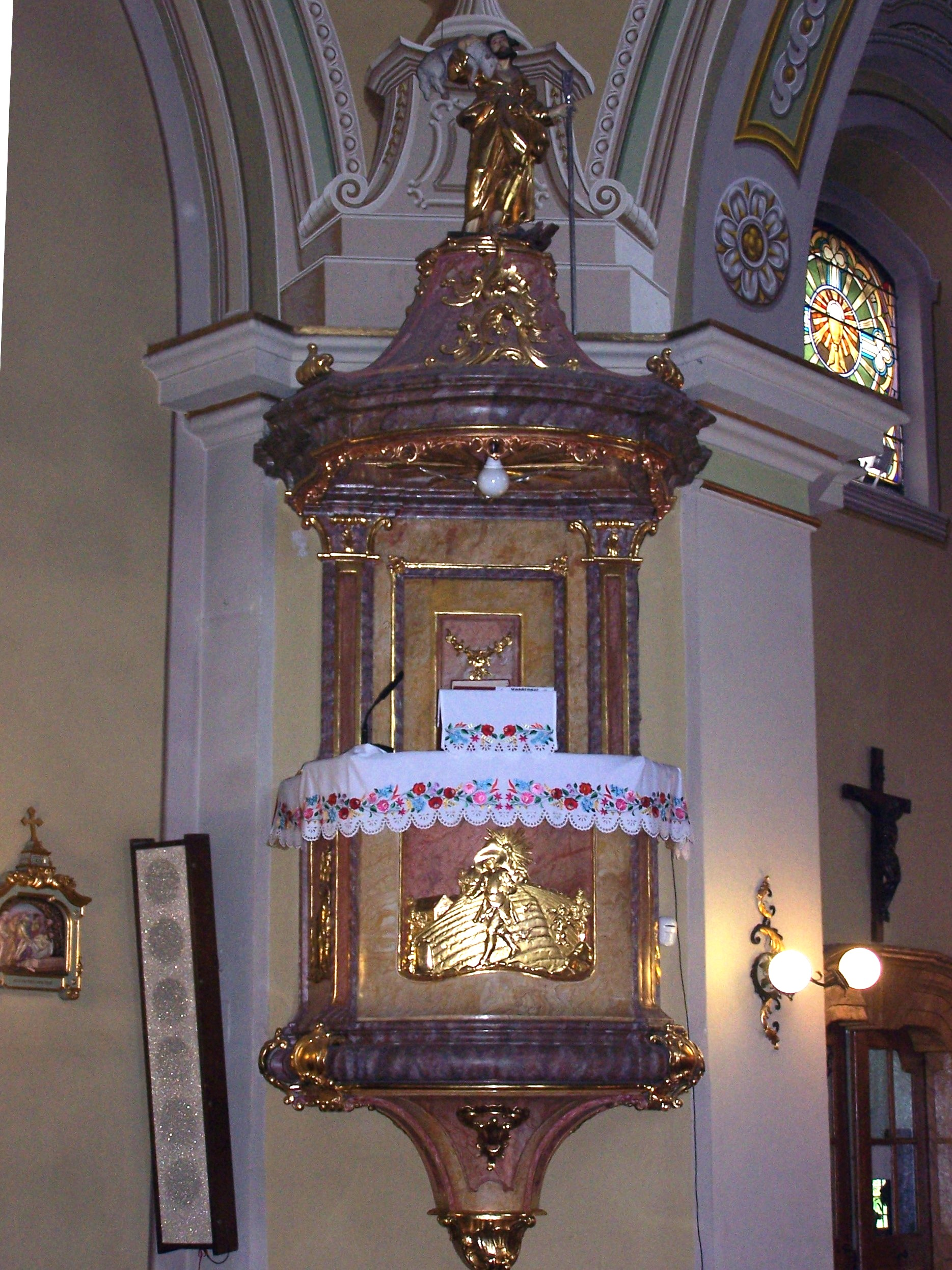 Catholic church of Rákoscsaba, Budapest (Hungary)